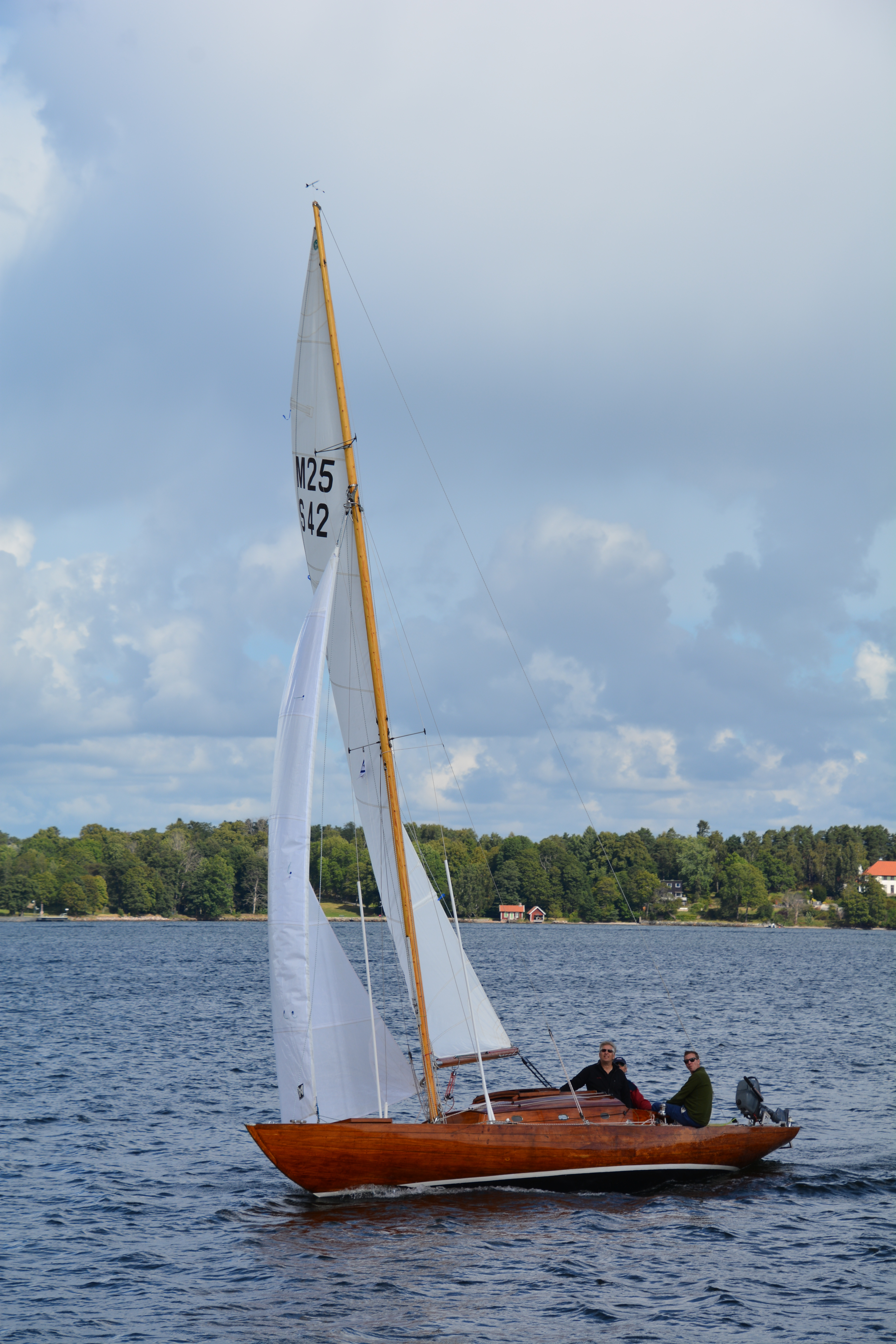 Sailing yacht of Swedish class Mälar 25